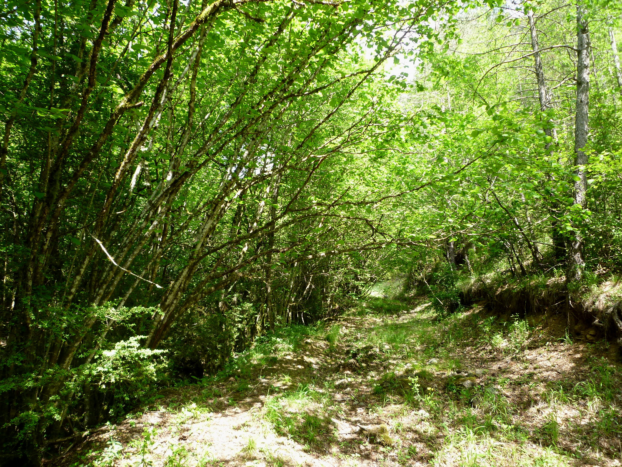 Corylus avellana. In Guixers (Solsonès - Catalunya), to 950 m. altitude